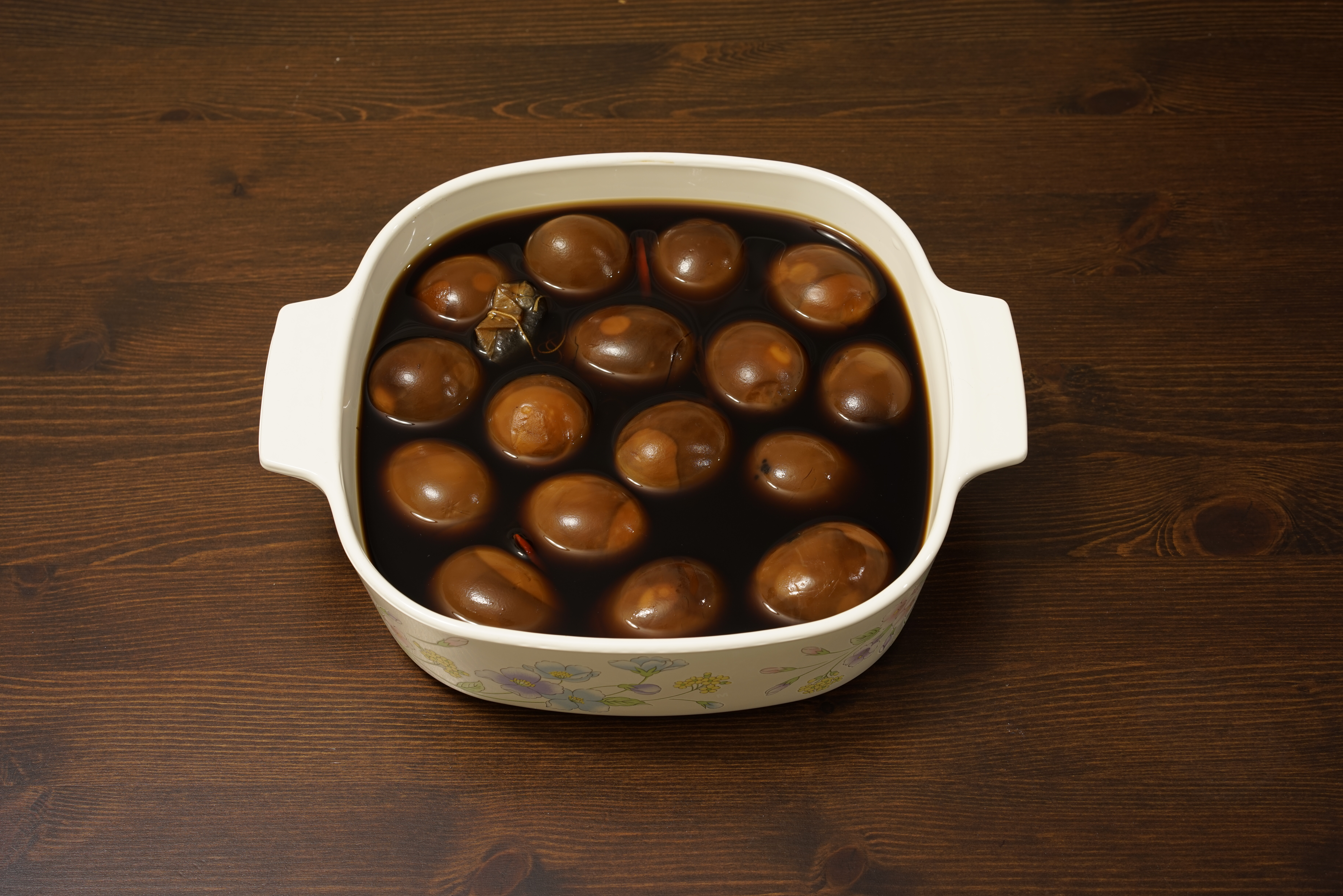 Tea eggs cooked the "quick method", which differs from the traditional method in which the shell is removed prior to steeping the eggs in tea, soy sauce, and spices.